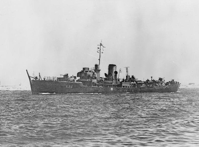 The Greek Flower class corvette APOSTOLIS, formerly the Royal Navy HMS Hyacinth, underway, at sea shortly after her transfer to Greece. Pennant No K84.